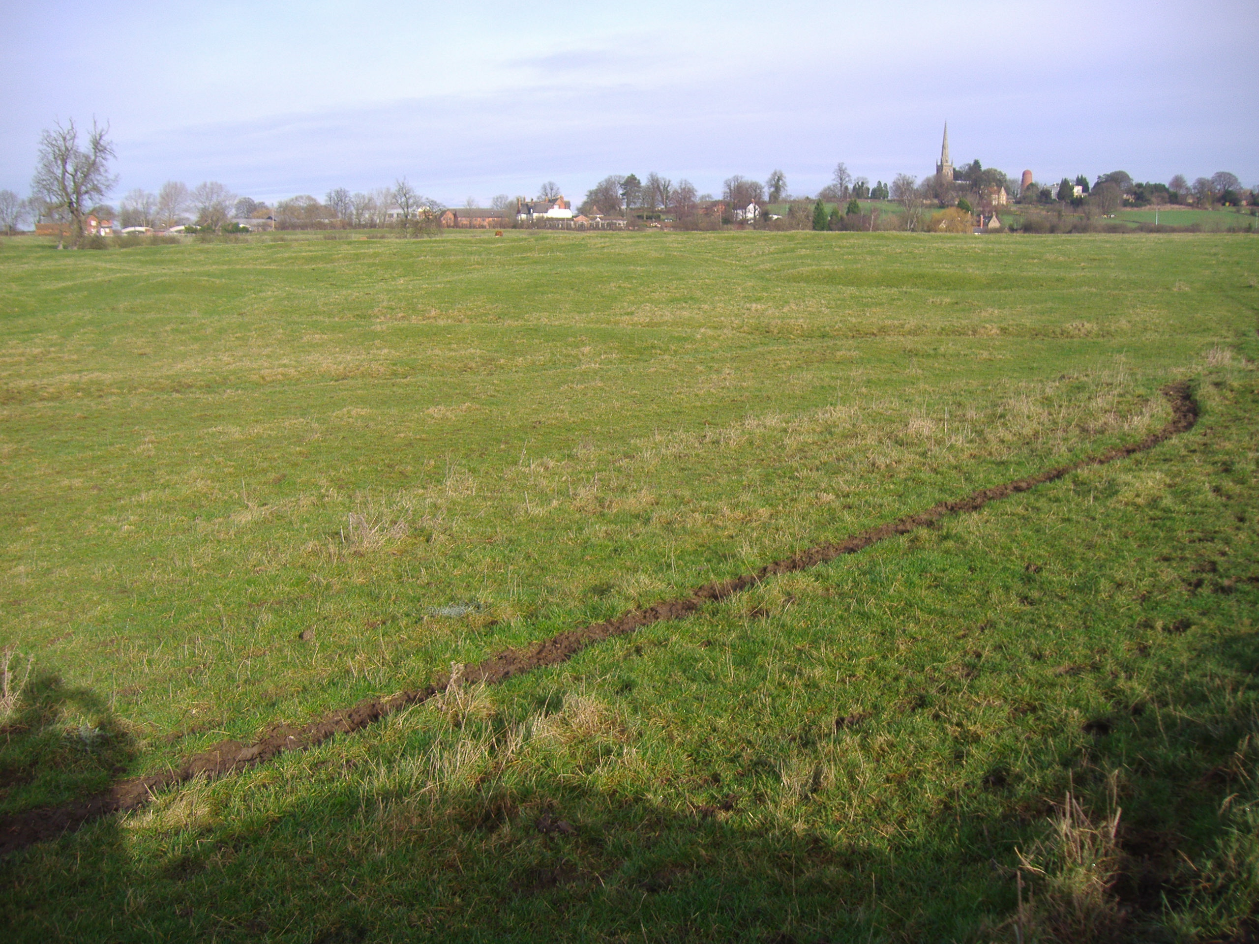 Site of the abandoned village of Braunstonbury, Northamptonshire